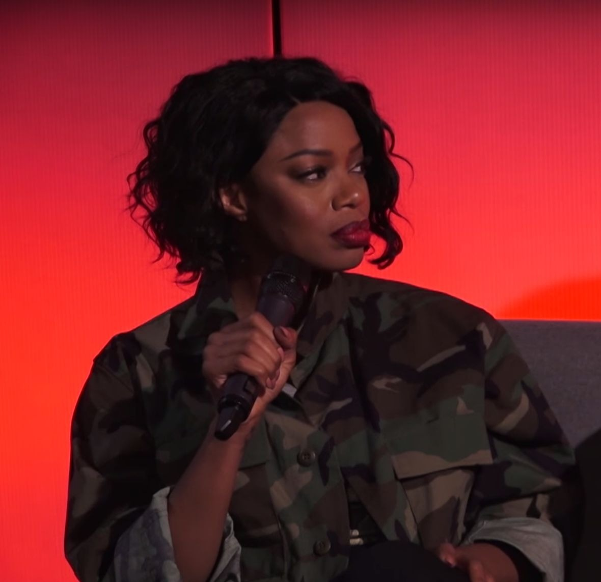 Brian White & Jill Marie Jones Talk About Their New Show With Lenny Green